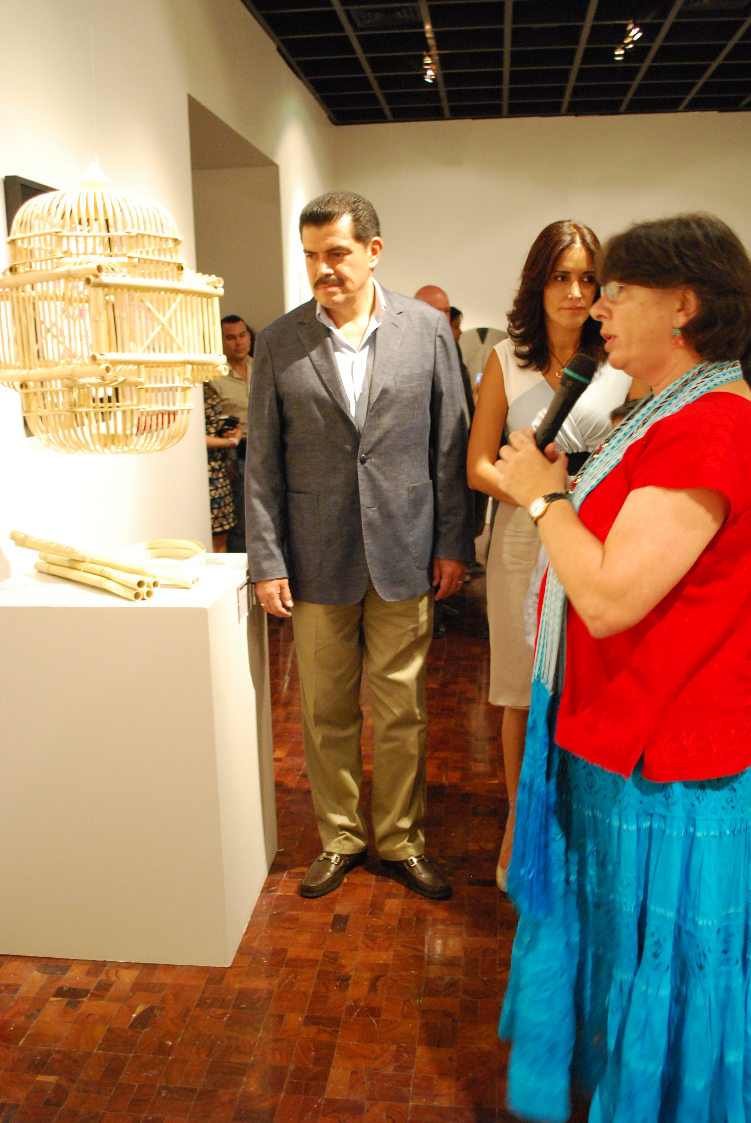 Governor José Francisco Olvera Ruiz receiving tour of a temporary exhibit dedicated to the state of Hidalgo at the Museo de Arte Popular in Mexico City